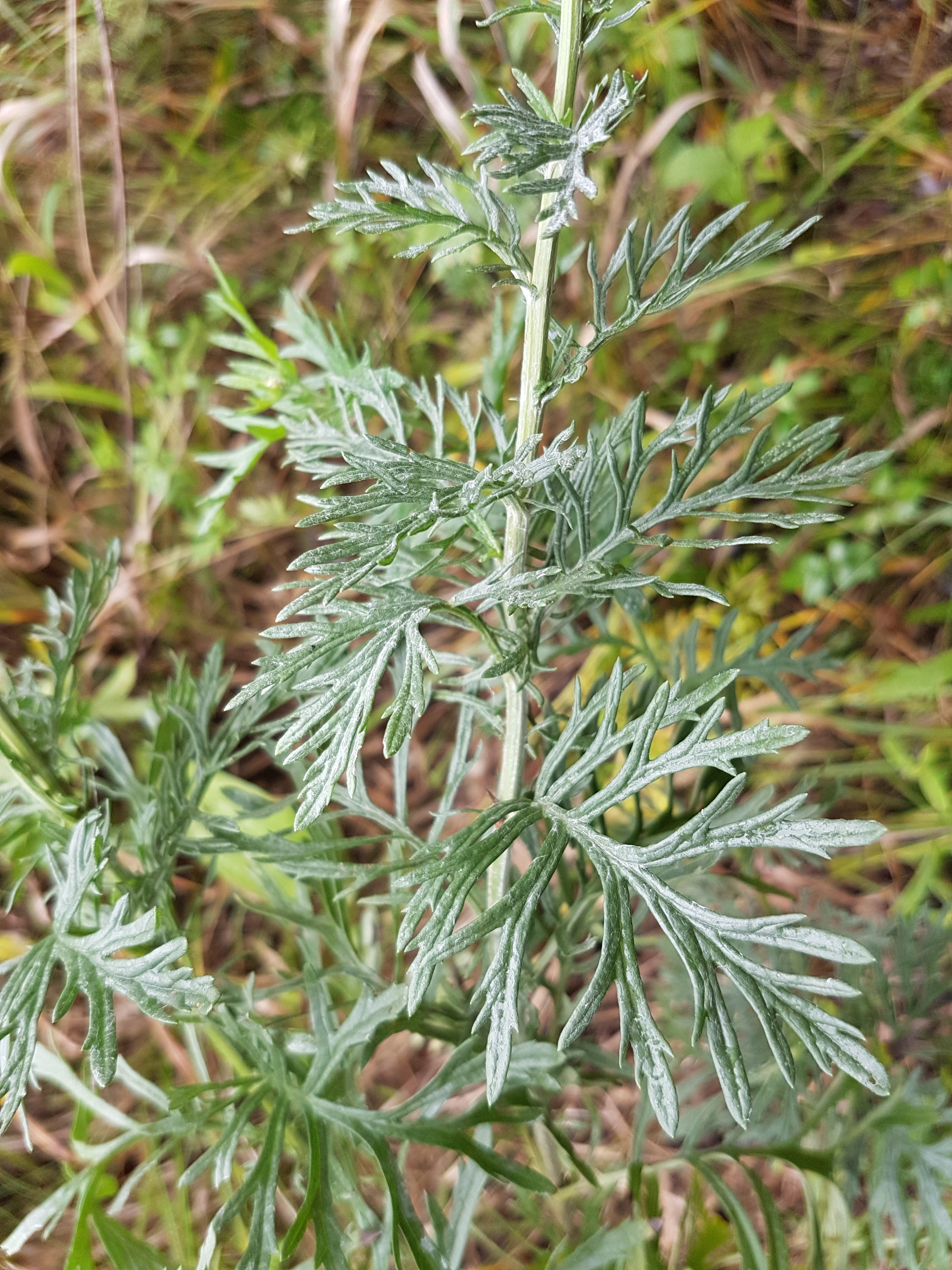 Stem with leaves Taxonym: Senecio erucifolius ss Fischer et al. EfÖLS 2008 ISBN 978-3-85474-187-9 Location: Dernberg, Nappersdorf-Kammersdorf, district Hollabrunn, Lower Austria - ca. 250 m ü. A. Habitat: border of a shrubbery